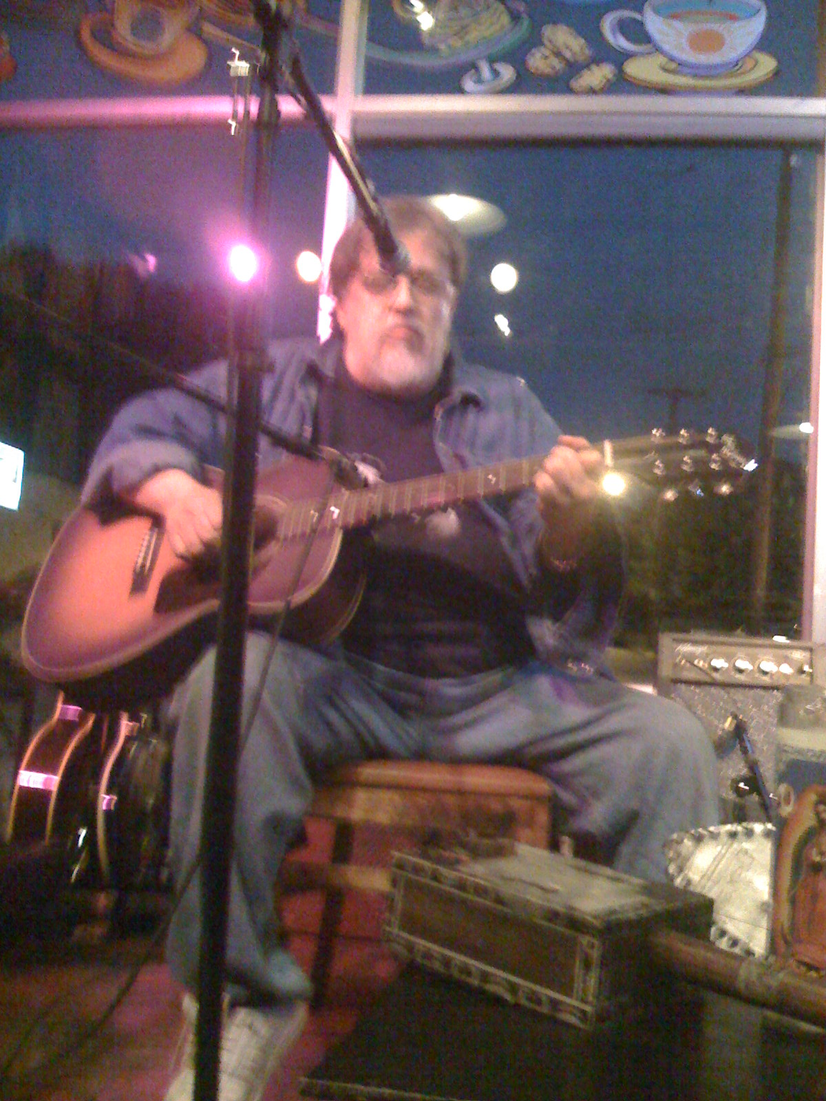 Jim Dickinson playing at Otherlands.